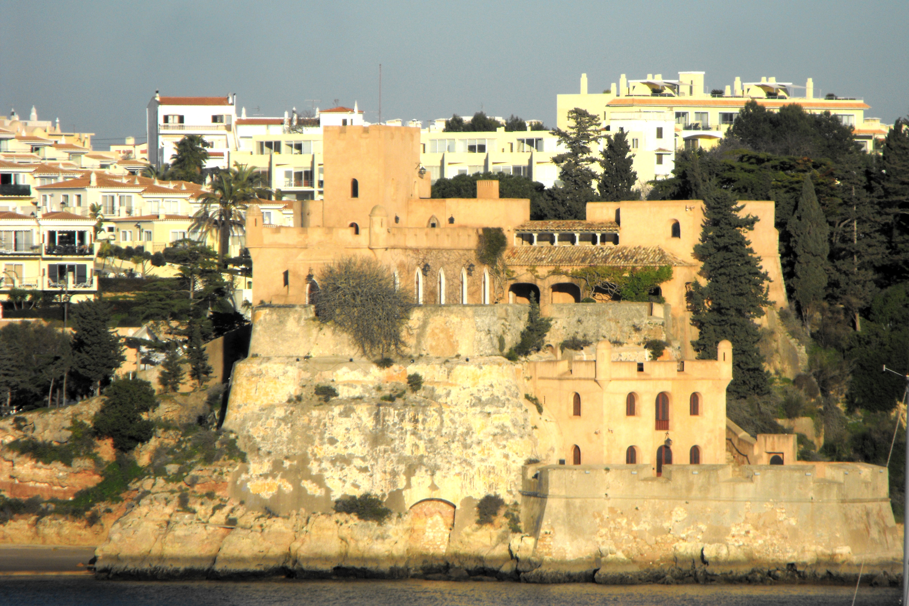 This file was uploaded for Wiki Loves Monuments in Portugal with the unique identifier 74742.